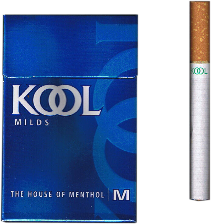 A pack of Kool Milds and the cigarette. Kool Full Flavor packs are green.